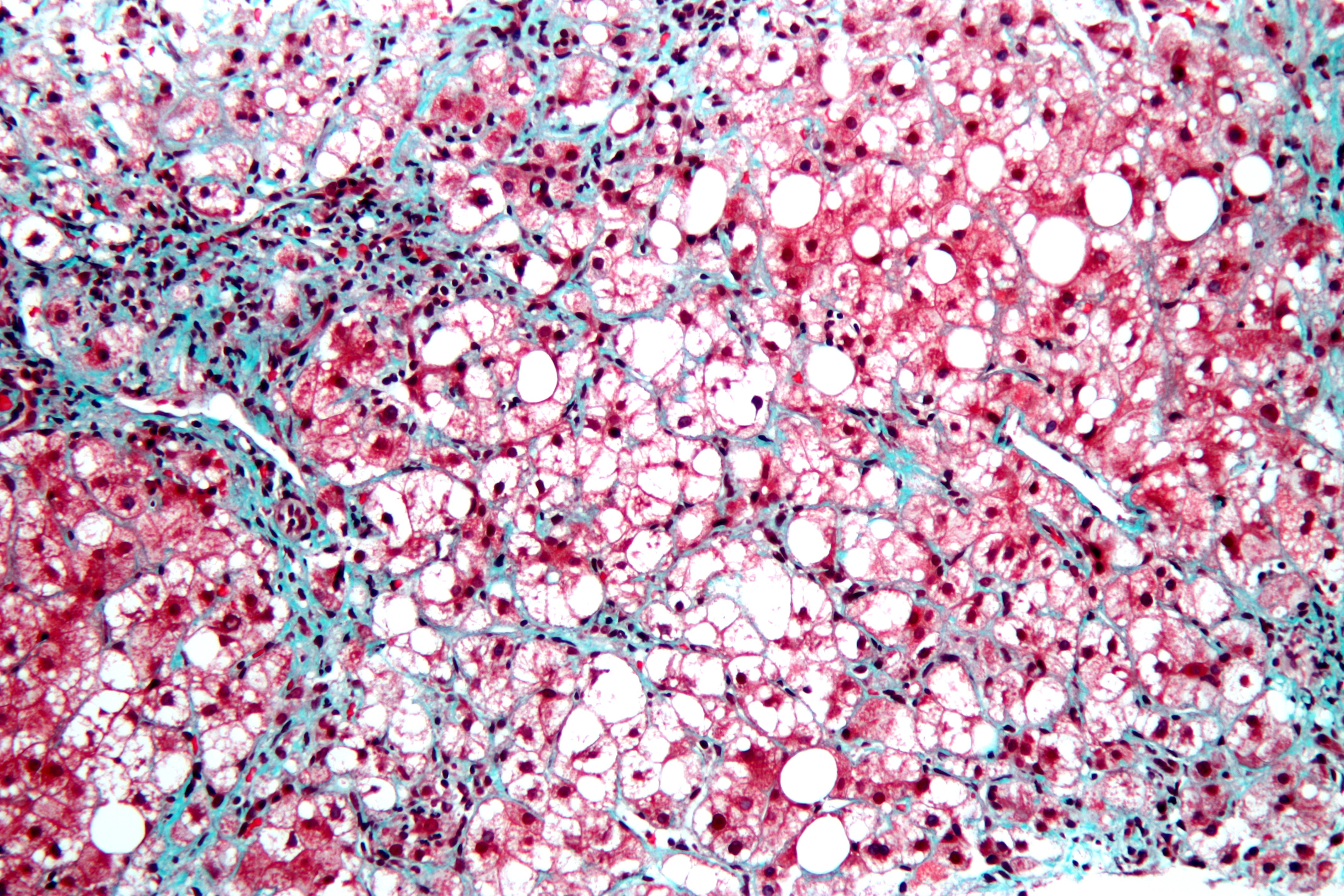 High magnification micrograph of steatohepatitis. Liver biopsy. Trichrome stain. Micrograph orientation: There is a portal tract on the right/top (large green patch). A central venule is location at the right off-center (rectangular clear area with green rim). Features of steatohepatitis: Steatosis (fatty liver). Balloon degeneration of hepatocytes (a form of apoptosis) - dead centre in image (large cell with small (pyknotic) centrally located nucleus). Fine chicken-wire fibrosis (fine thin green strands within the liver lobule). Lobular necro-inflammation - hepatocyte necrosis with (lymphocytic) inflammation. See also Image:Non-alcoholic fatty liver disease1.jpg - NAFLD, a condition that is associated with steatohepatitis.